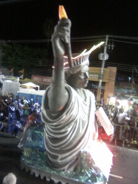 GRES Unidos da Vila Kennedy